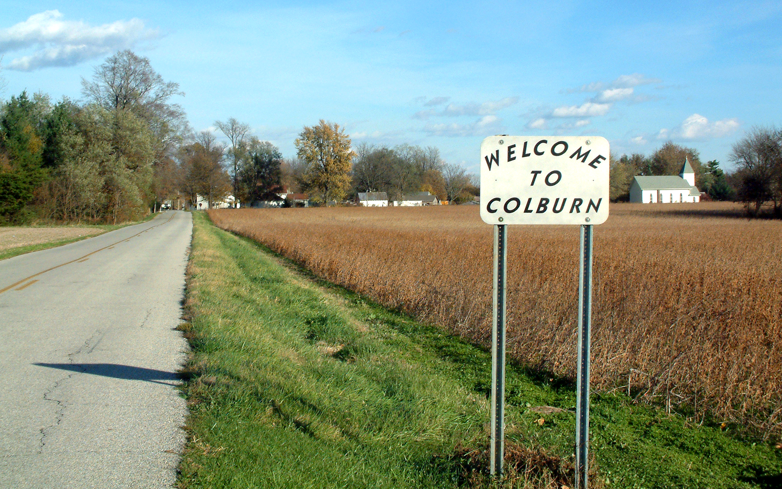 Looking east toward the town of Colburn in Tippecanoe County, Indiana.